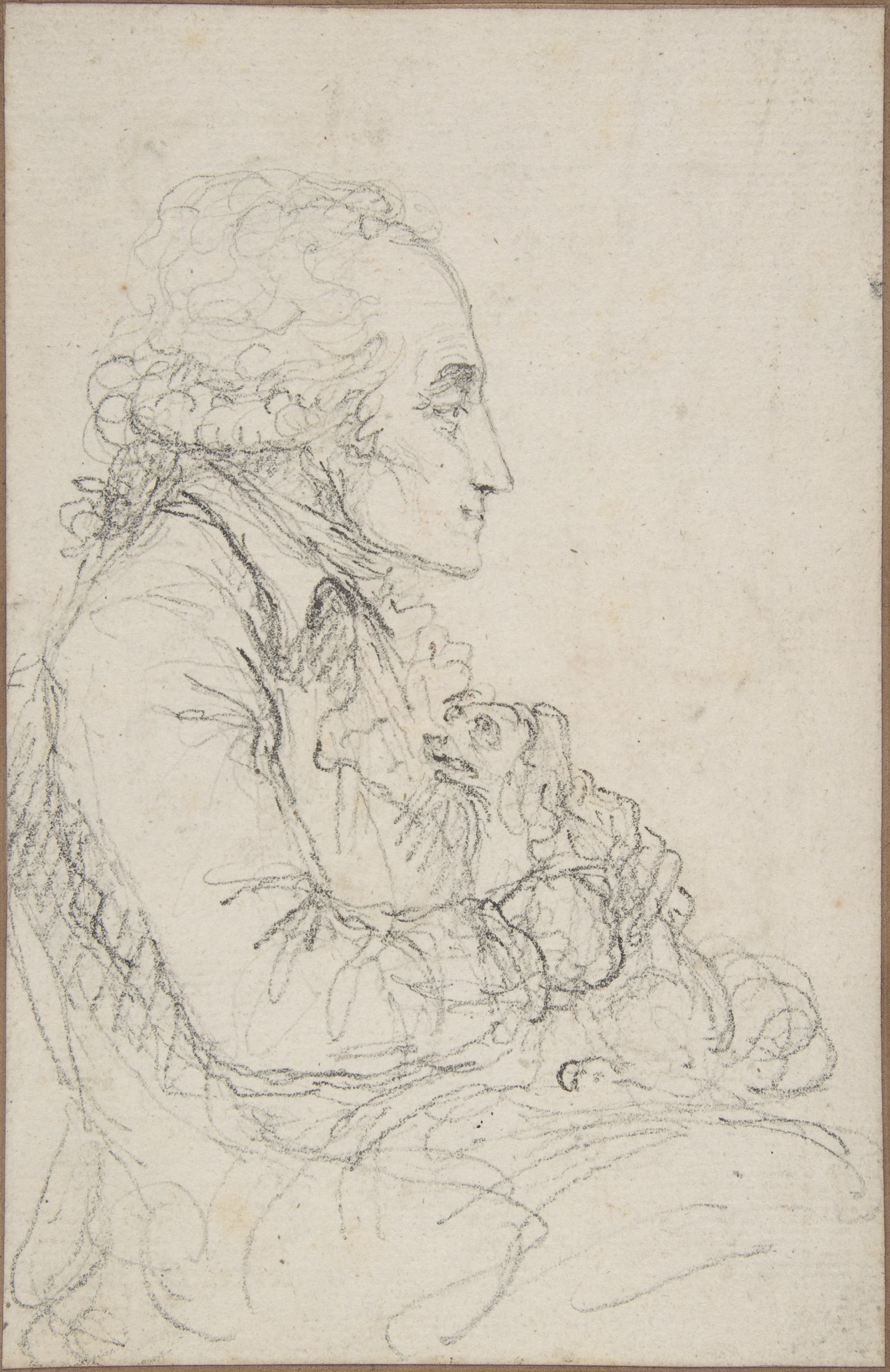 Drawing.